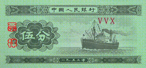 Front of second series 5 fen renminbi